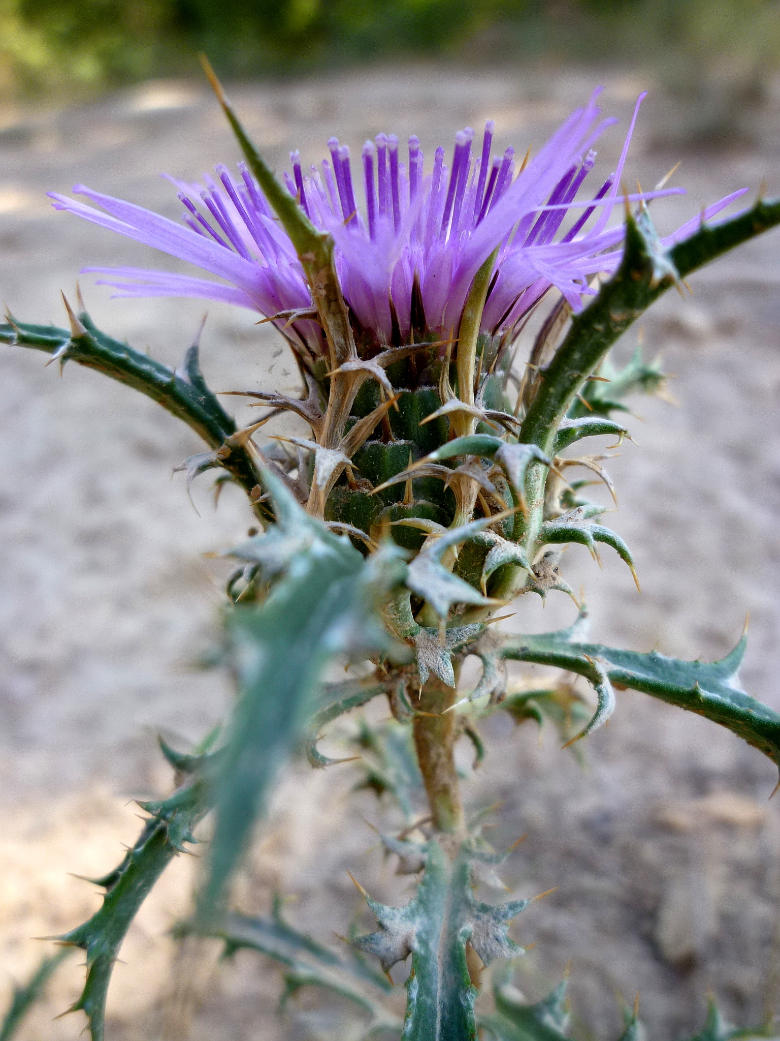 Atractylis humilis. In Torà (Segarra- Catalunya). On 565 m. altitude